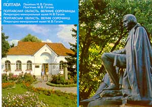 3 kopeiks Stamp of the Soviet Union devoted to the village of Velikie Sorochintsy in Ukraine. 1983 From now